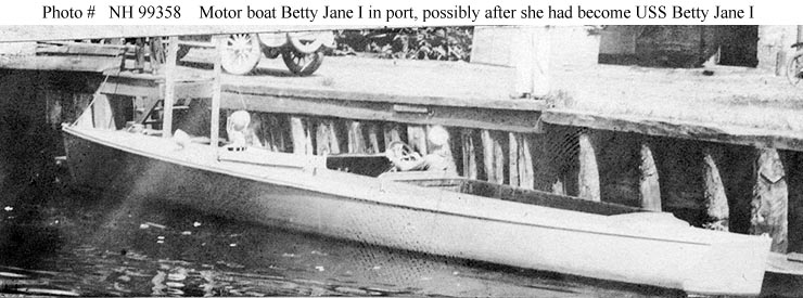 The motorboat Betty Jane I, possibly sometime prior to her United States Navy service as the patrol vessel or perhaps at the time of her inspection by the 6th Naval District on 17 September 1918 about year after she had entered Navy service.